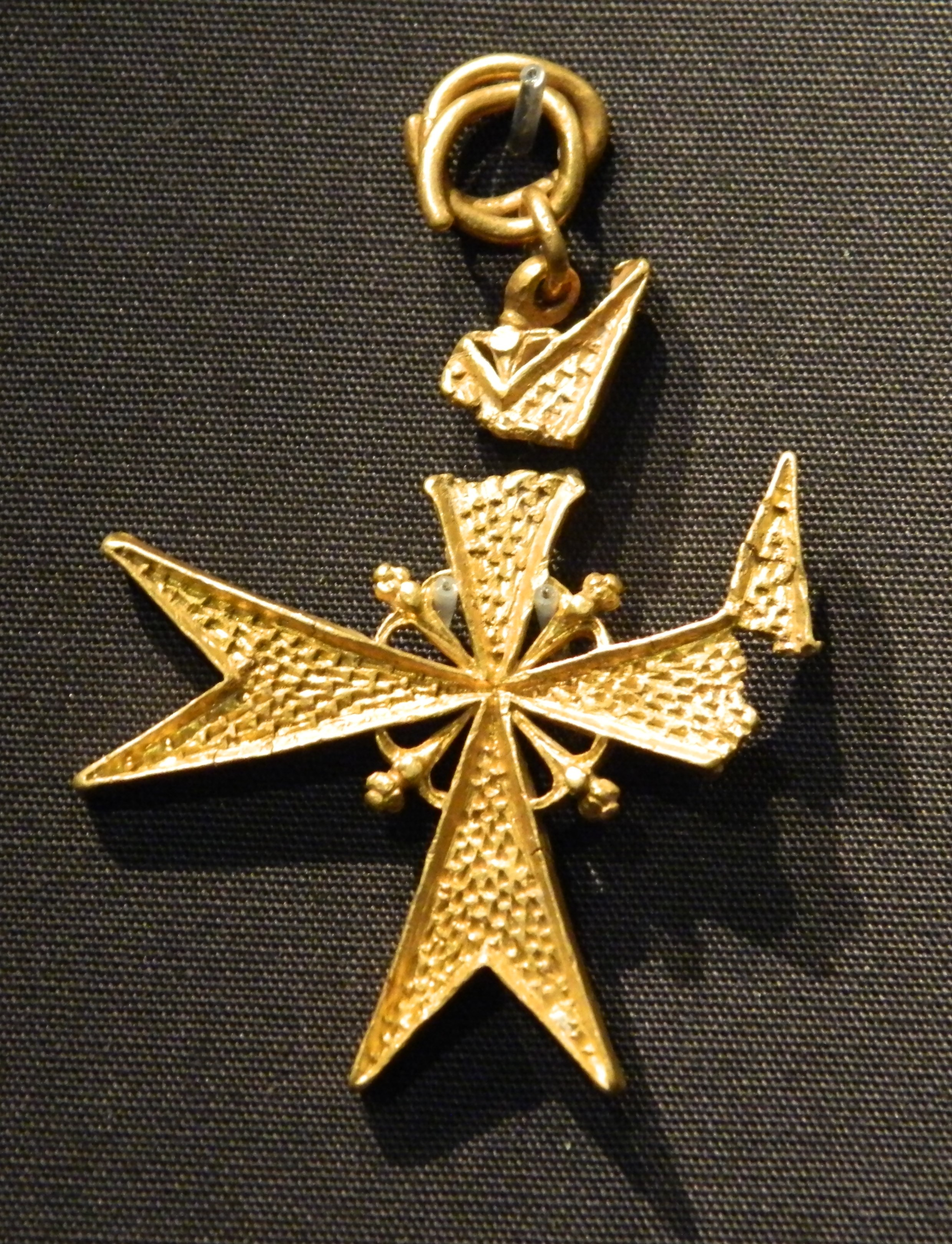 Cross of a Knight of St. John of Jerusalem, Ulster Museum, Belfast, Northern Ireland. Found among the wreckage of the Girona, a Spanish Armada ship.